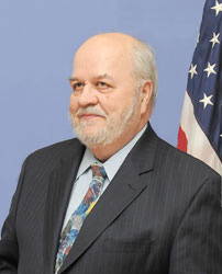 US Ambassador Richard Miles